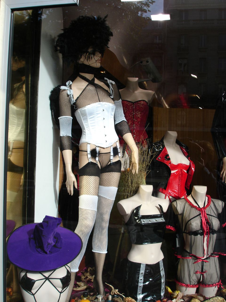 Display window of a shop in the Pigalle area, Paris, FranceParisBallade-0997